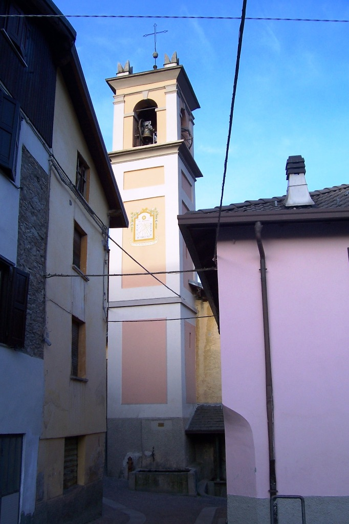 Doverio, Val Camonica